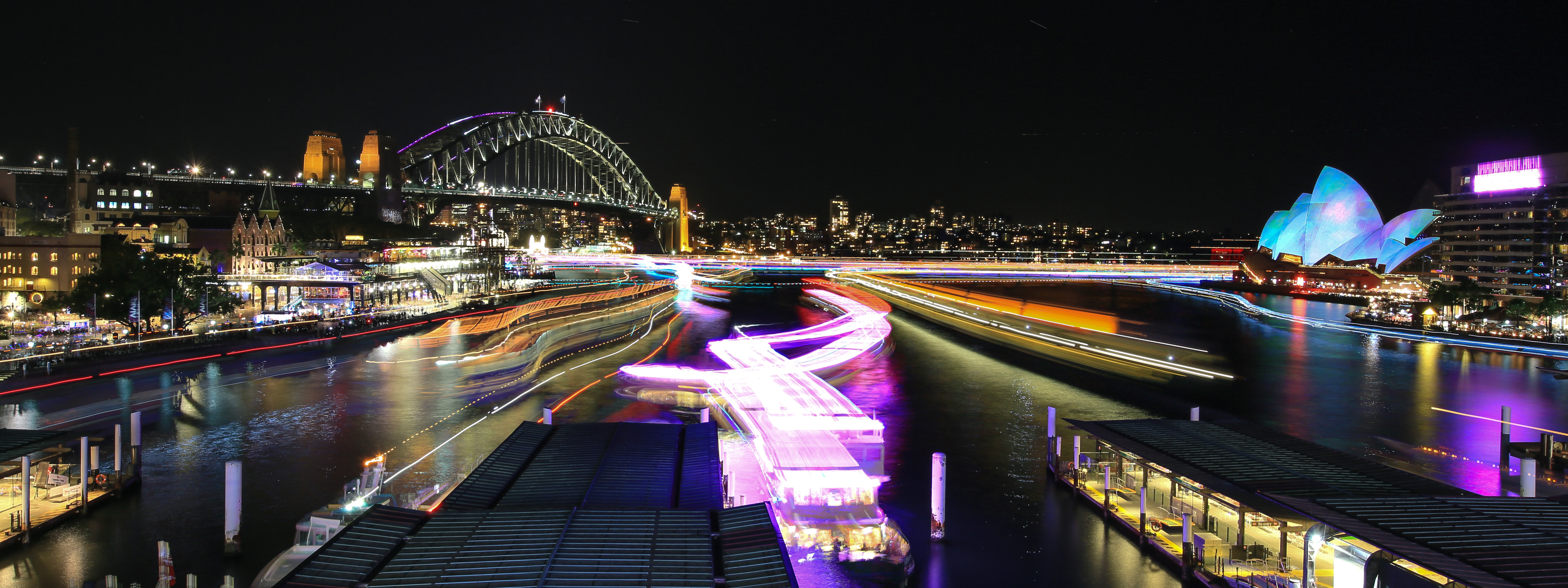 Vivid Sydney, Sydney Harbour, 2015